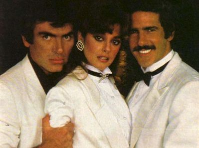 Photo Bucket